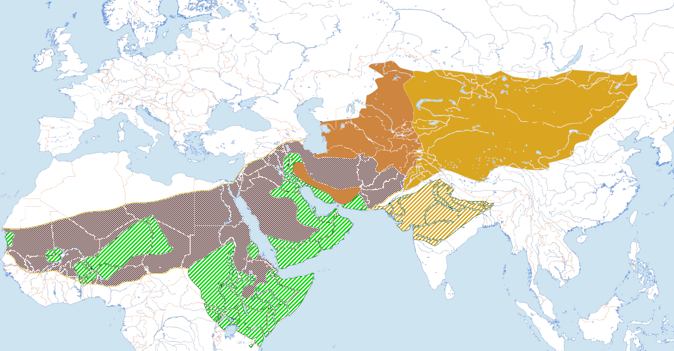 Distribution Map of Lanius isabellinus and Lanius phoenicuroides Ochre: breeding range of L. isabellinus Red-brown: breeding range of L. phoenicuroides Brown stripes: wintering area of L. isabellinus Green stripes: wintering area of both L. isabellinus and L. phoenicuroides Purple with fine dots: migration passage of both species